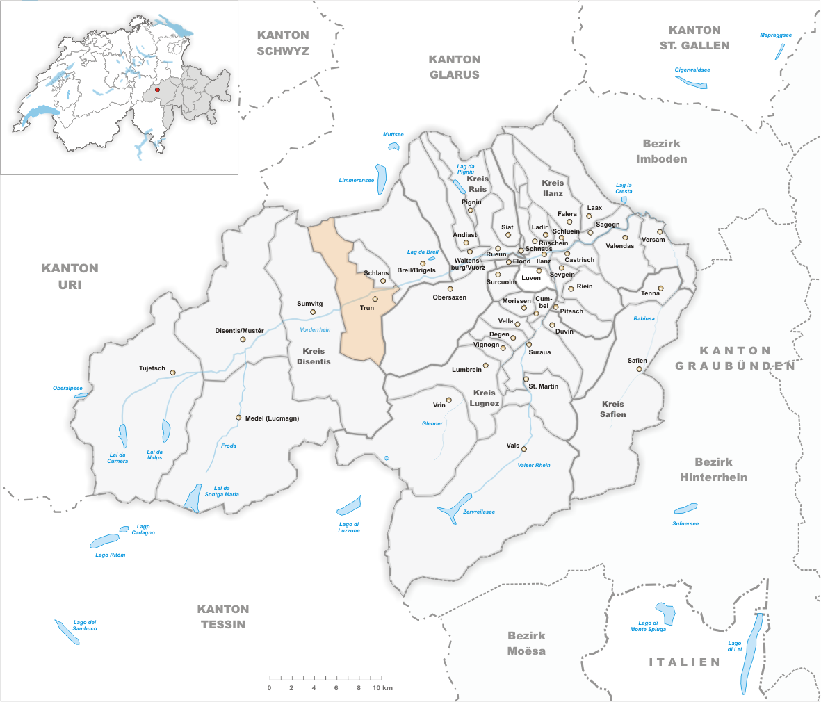 Municipality Trun